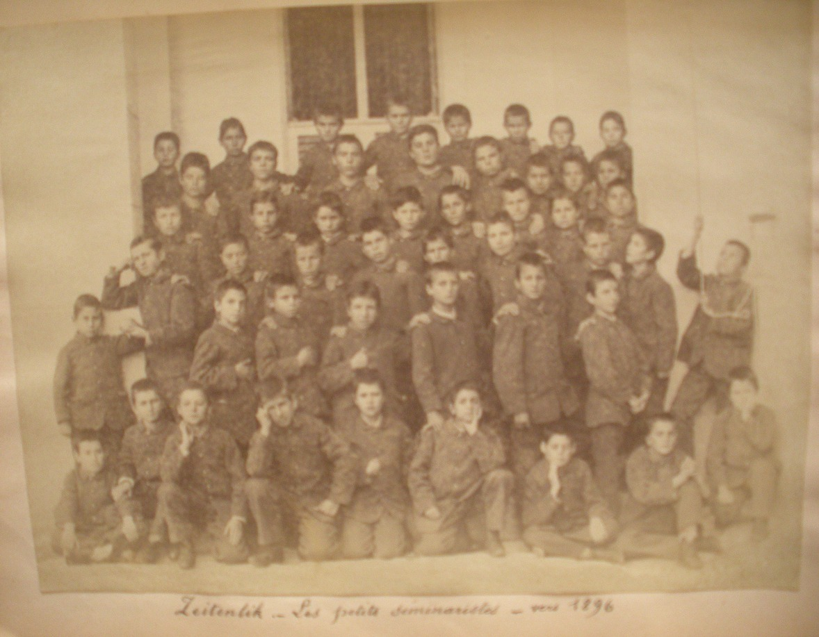 Students in the Bulgarian Catholic Seminary in Thessaloniki, 1896